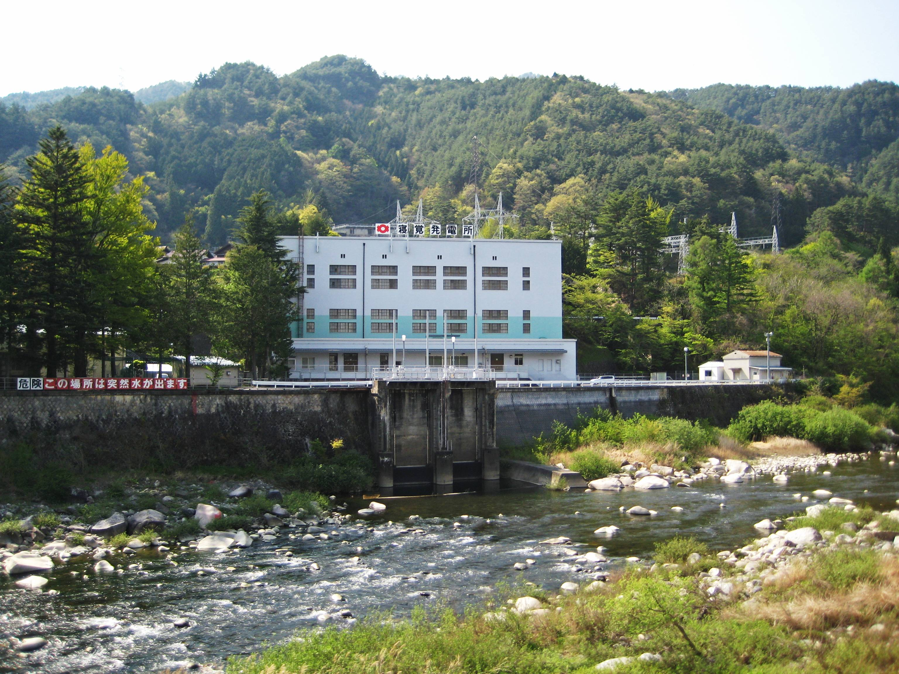 Nezame power station.